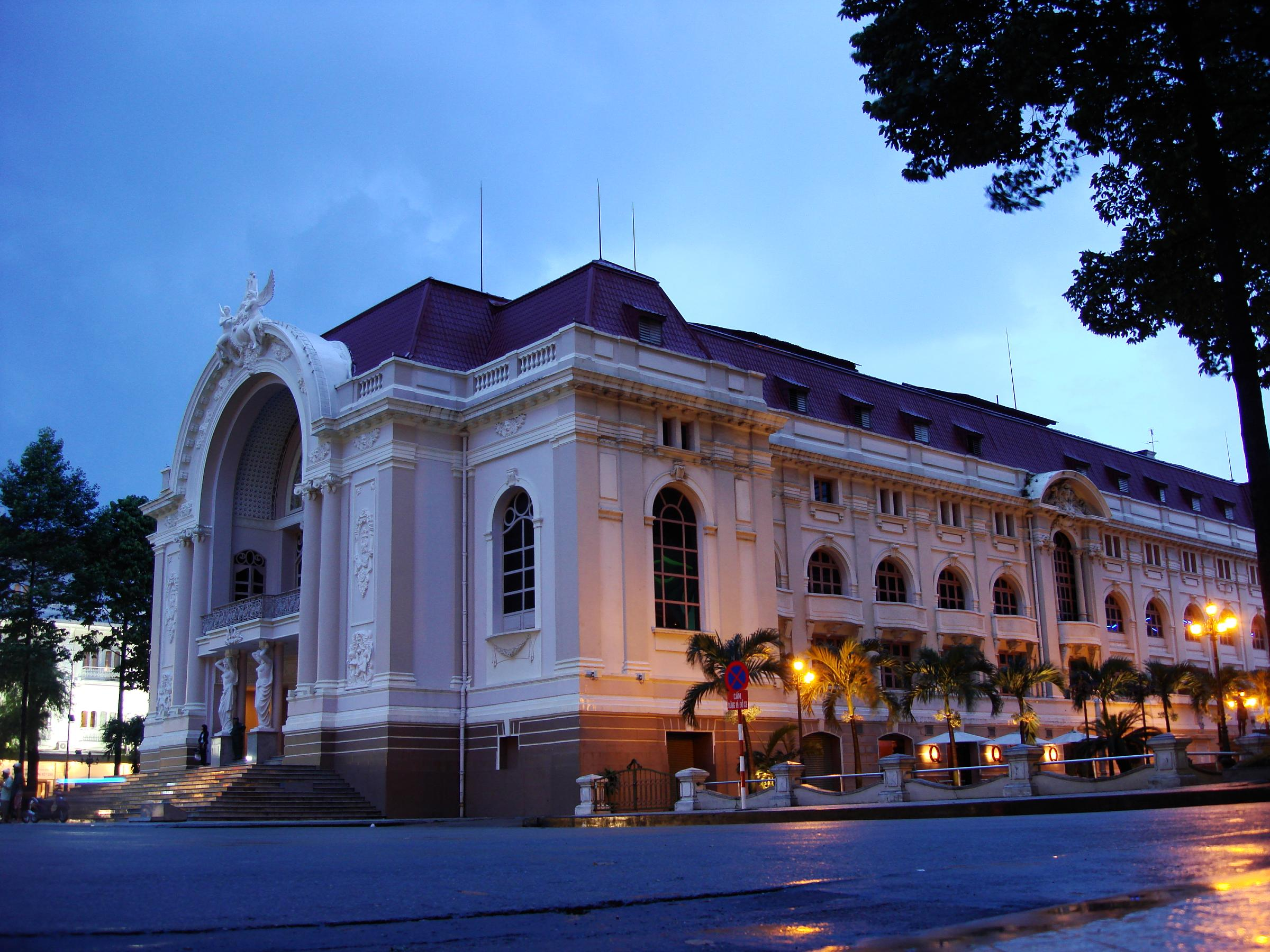 The Saigon Opera House (An opera house in Ho Chi Minh City) is an example of French Colonial architecture in Vietnam. Built in 1897 by French architect Ferret Eugene, the 800 seat building was used as the home of the Lower House assembly of South Vietnam after 1956. It was not until 1975 that it was again used as a theatre, and restored in 1995. Saigon Opera House is a smaller counterpart of the Hanoi Opera House (built from 1901 to 1911, and shaped like the Opéra Garnier in Paris). The Saigon Opera House owes its specific characteristics to the work of architect Félix Olivier, while construction was under supervision of architects Ernest Guichard and Eugène Ferret in 1900